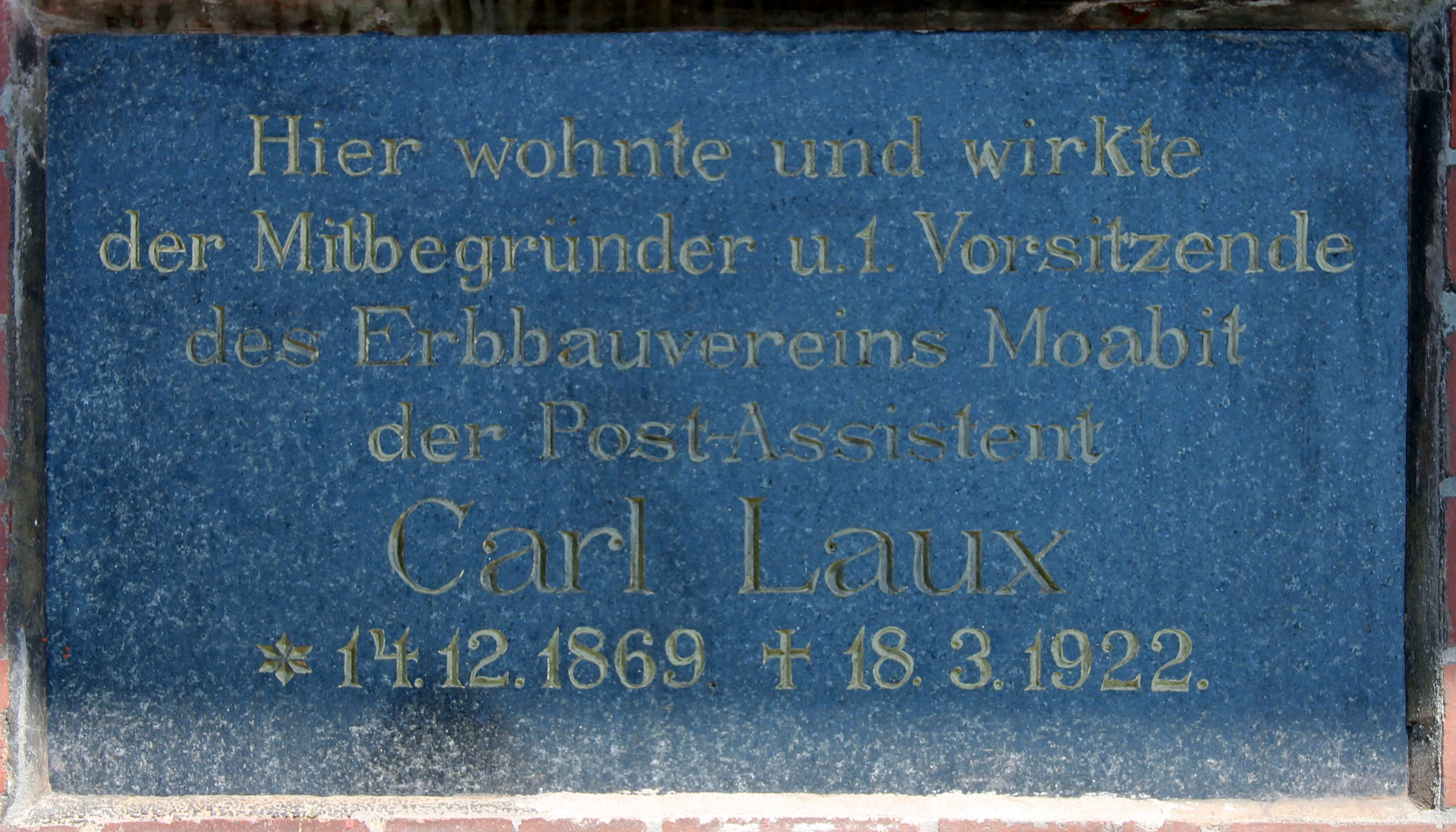 Memorial plaque, Carl Laux, Sprengelstraße 20, Berlin-Wedding, Germany